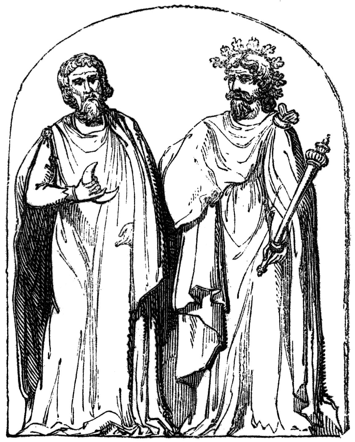 18th-century engraving reproducing a bas-relief found at Autun, France, depicting "two druids"